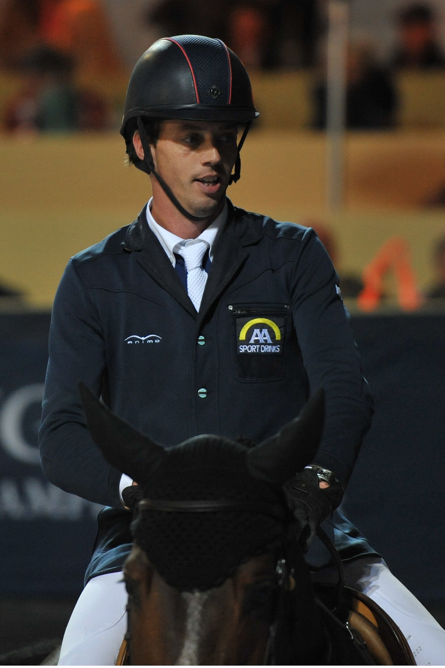 Vienna Masters am 21. September 2013 Longines Global Champions Tour Harrie Smolders (NED) auf Jackson Hole